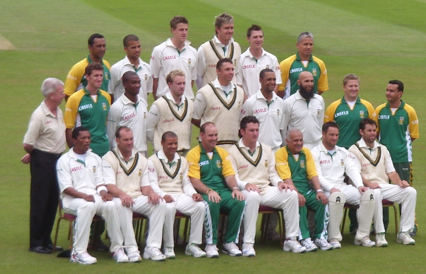 The South African touring cricket team at The Oval, 4th Test, 7-11 August 2008 Front row: l. to r. Mkhaya Ntini, Jacques Kallis, Ashwell Prince, Mickey Arthur [coach], Graeme Smith [captain], assistant coach , Mark Boucher, Neil McKenzie. 2nd row: Team manager, Albé Morkel, Thami Tsolekile, AB de Villiers, André Nel, Robin Peterson, Hashim Amla, sub, Niki Boje. Back row: Another, JP Duminy, Morné Morkel, Paul Harris, Dale Steyn, another. Source:cricinfo